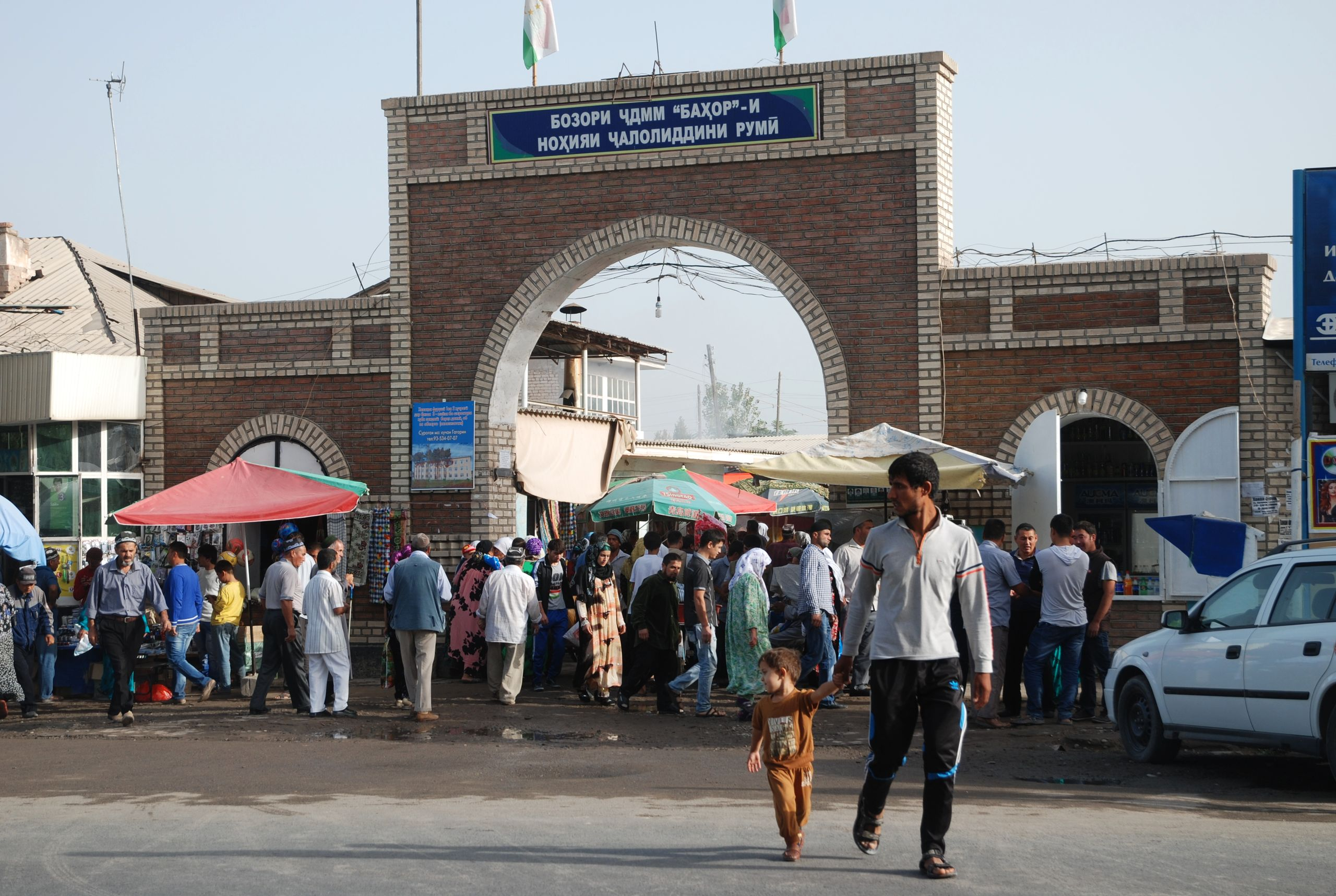 Kolkhozobod, entrance to market